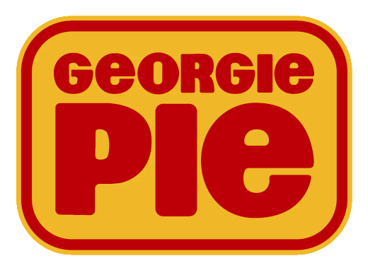 Made for Georgie Pie article as couldn't find a good example on the web